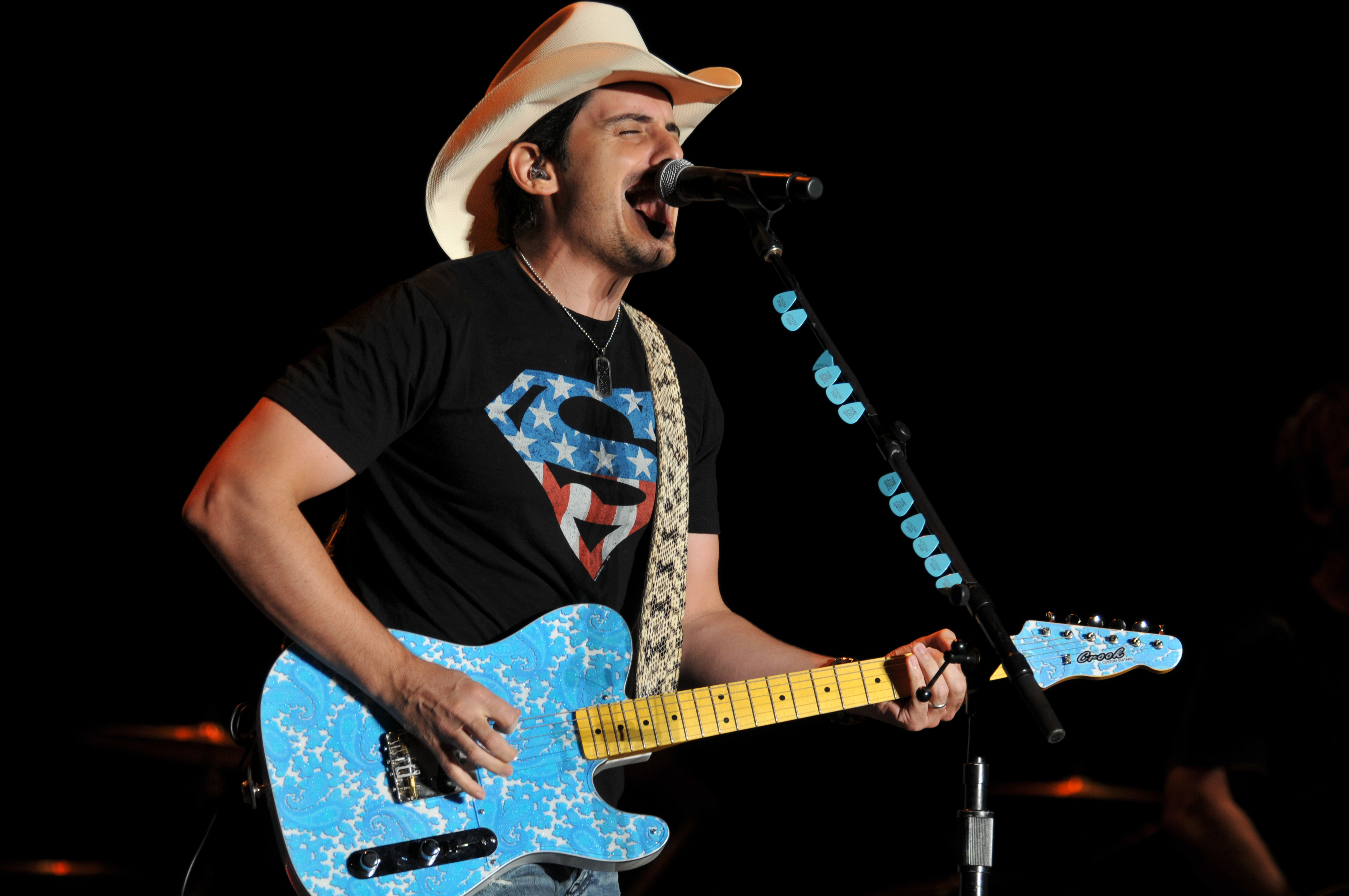 MAYPORT, Fla. (Sept. 8, 2011) Country music star Brad Paisley performs to more than 11,000 members of the Naval Station Mayport community. (U.S. Navy photo by Mass Communication Specialist 1st Class Toiete Jackson/Released)